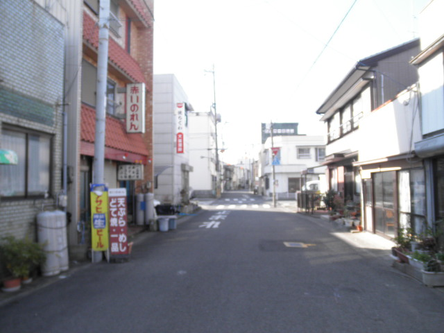 Matsushimatown Komatsushimacity Tokushimapref